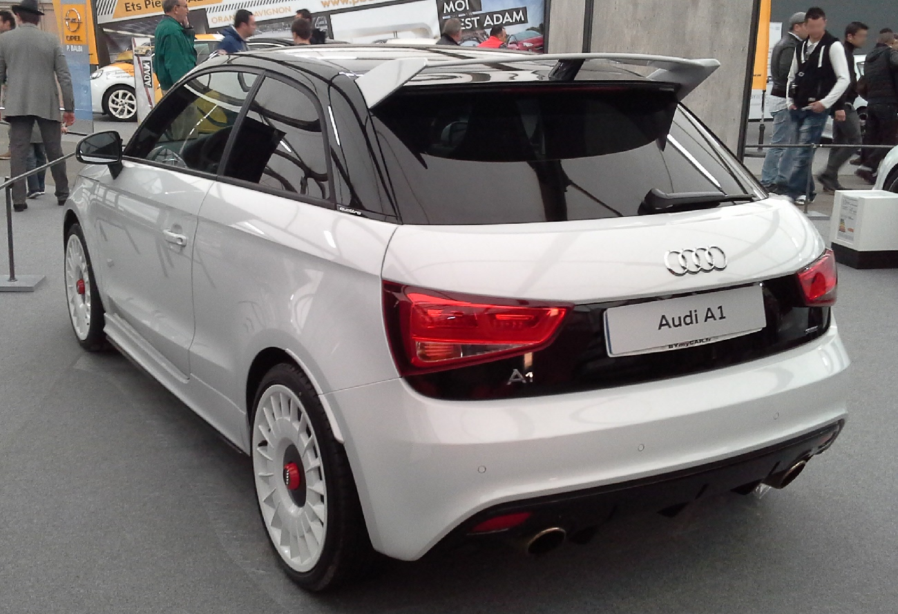 Audi A1 Quattro photographed at the 2014 Avignon Motor Festival in Avignon, France.